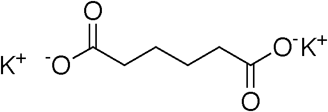 Chemical structure of potassium adipate